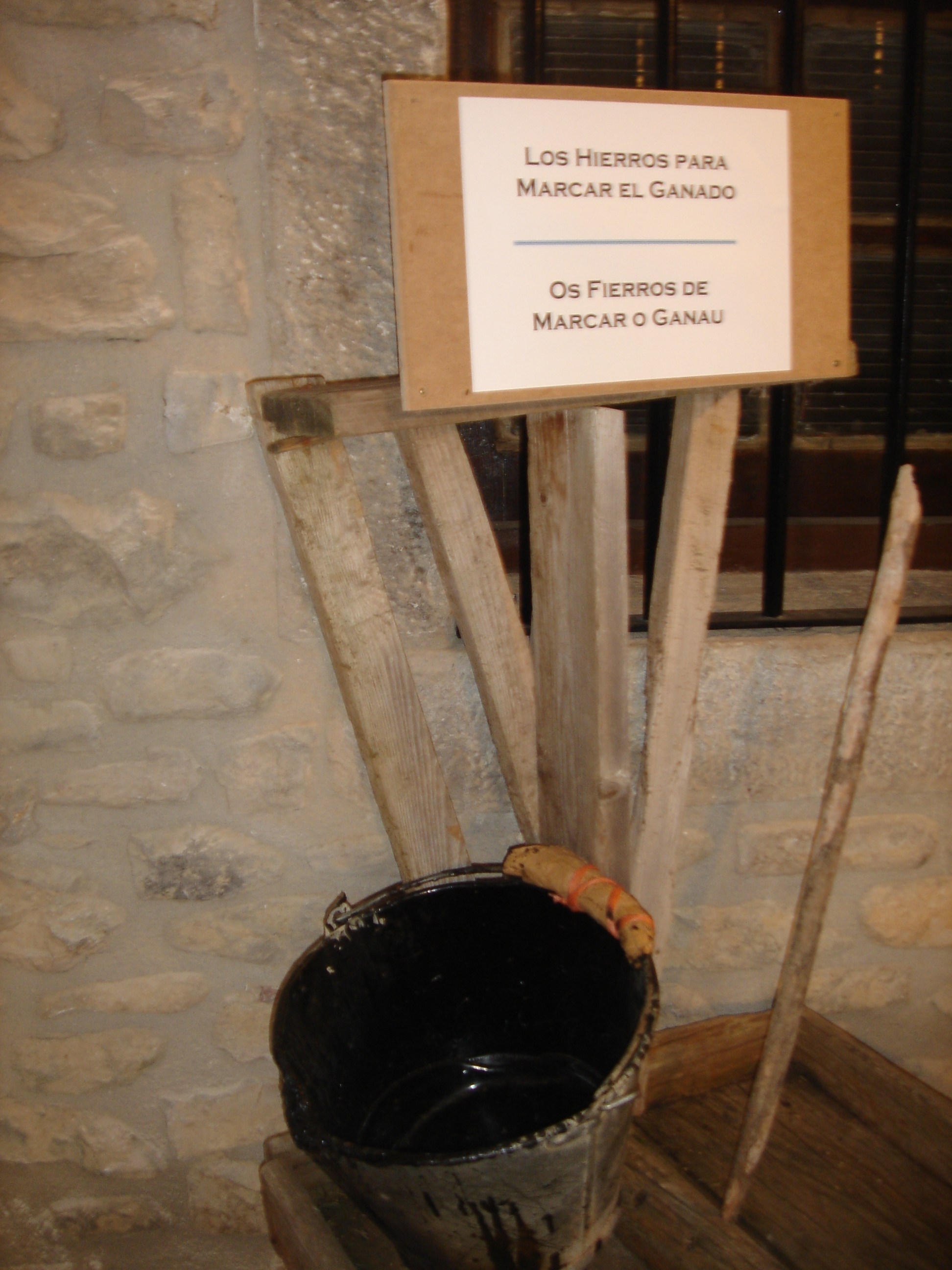 Exposition of possibles uses of pitch